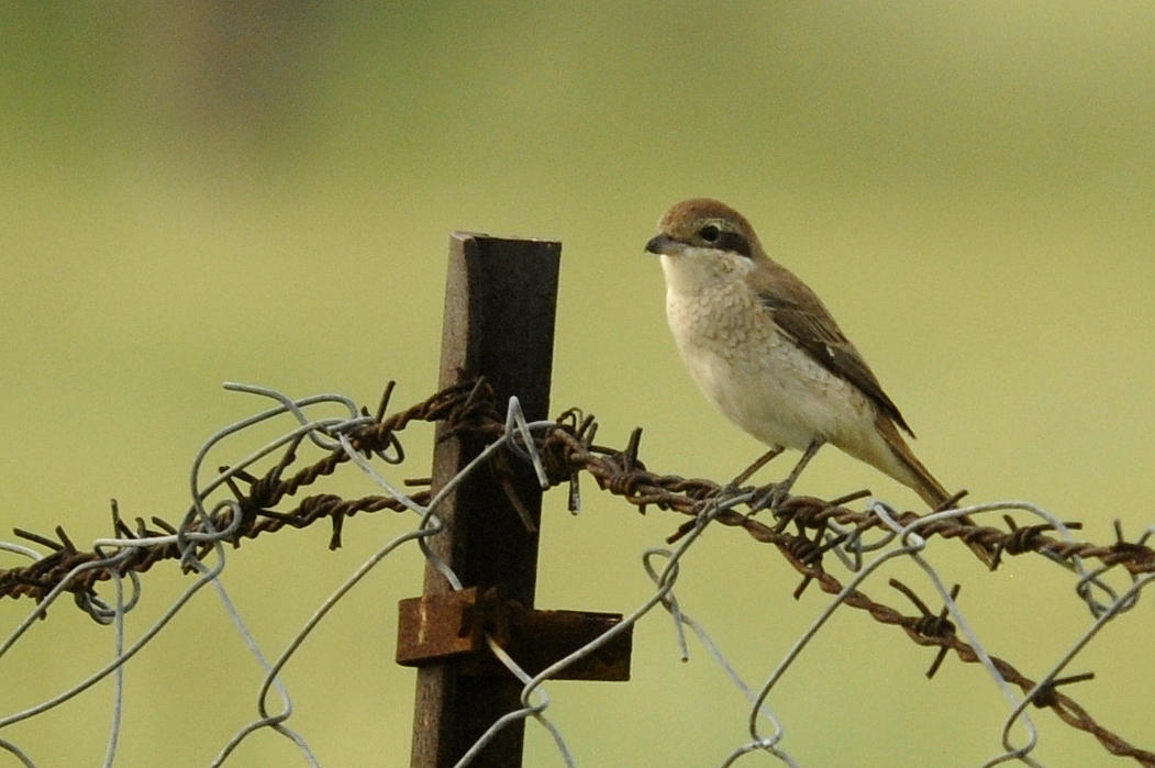 Red-tailed Shrike juvenile in Desert National Park, Rajasthan, India